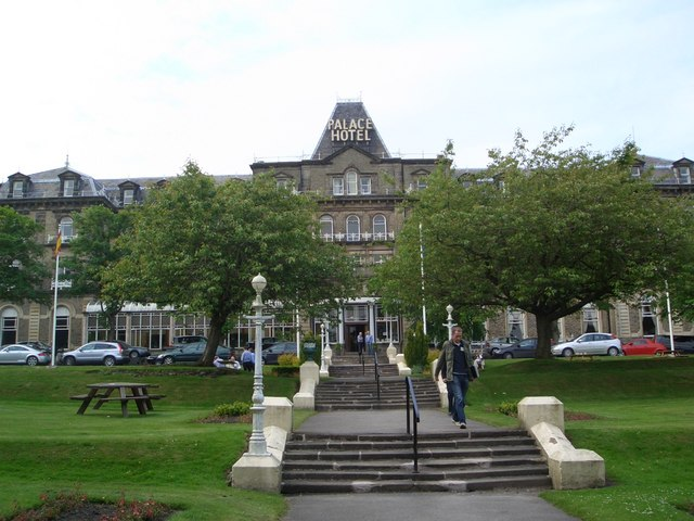 Palace Hotel, Buxton Opened in the 1860s, a typical (and very large - my room was nearly 100 yards from the top of the main staircase) Victorian spa town hotel.